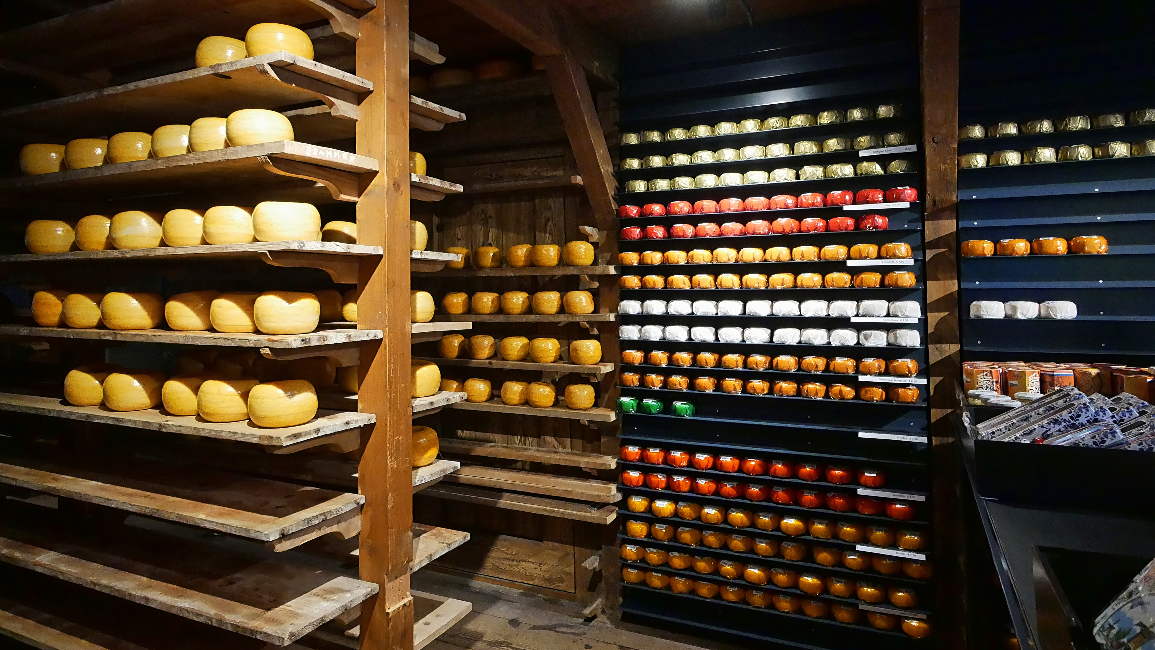 Zuiderzeemuseum Buitenmuseum Workshops - cheese store